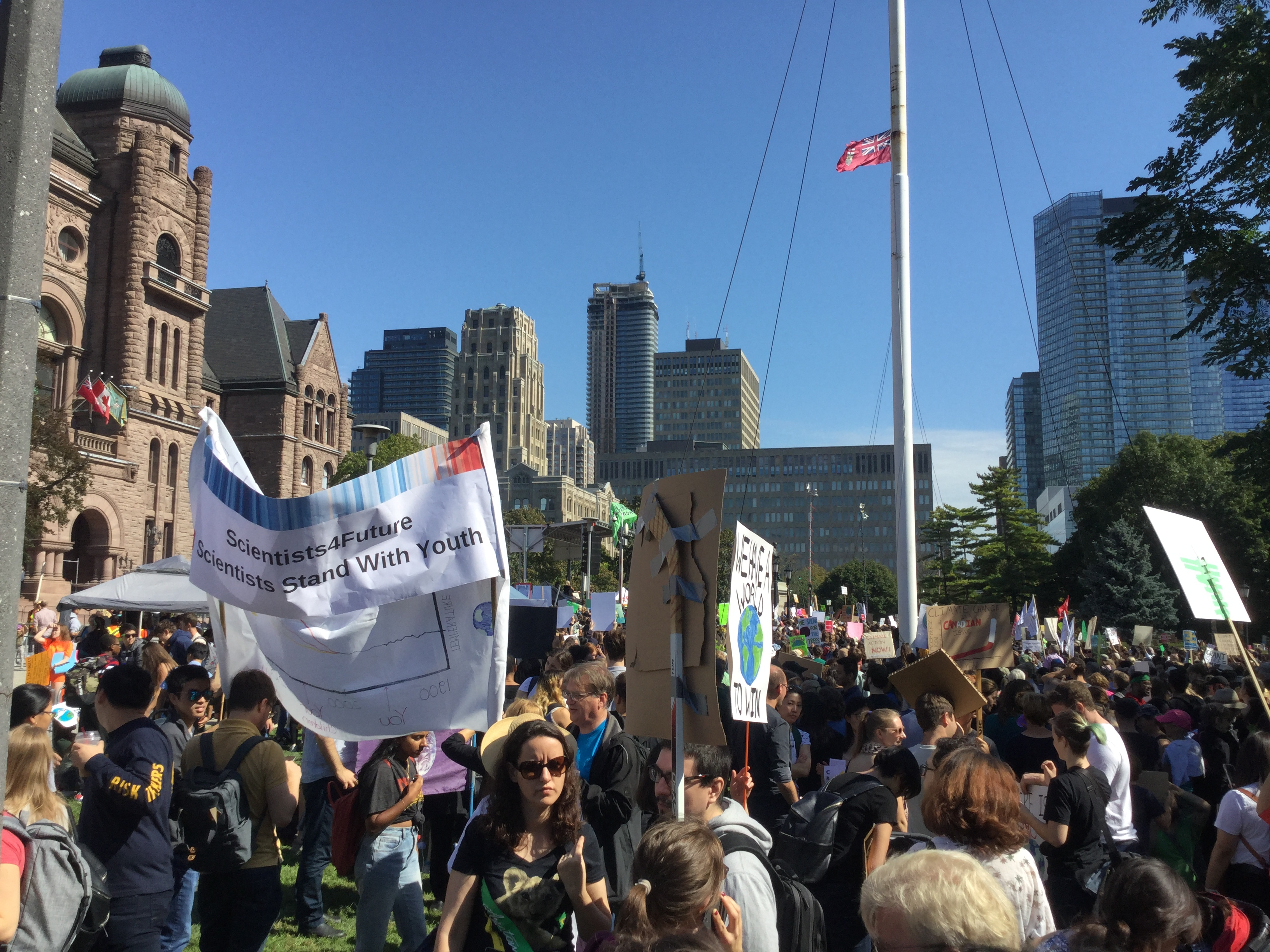 Cop: Crowd at Queen’s Park Climate Strike